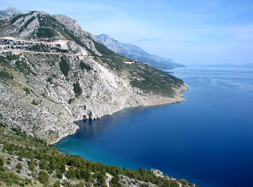 Vrulja, near Omiš. Just 50km south of Split, largest city in Dalmatia on Croatian side of the Adriatic sea is seated in between crystal clear sea and Biokovo mountain beautiful Makarska Riviera